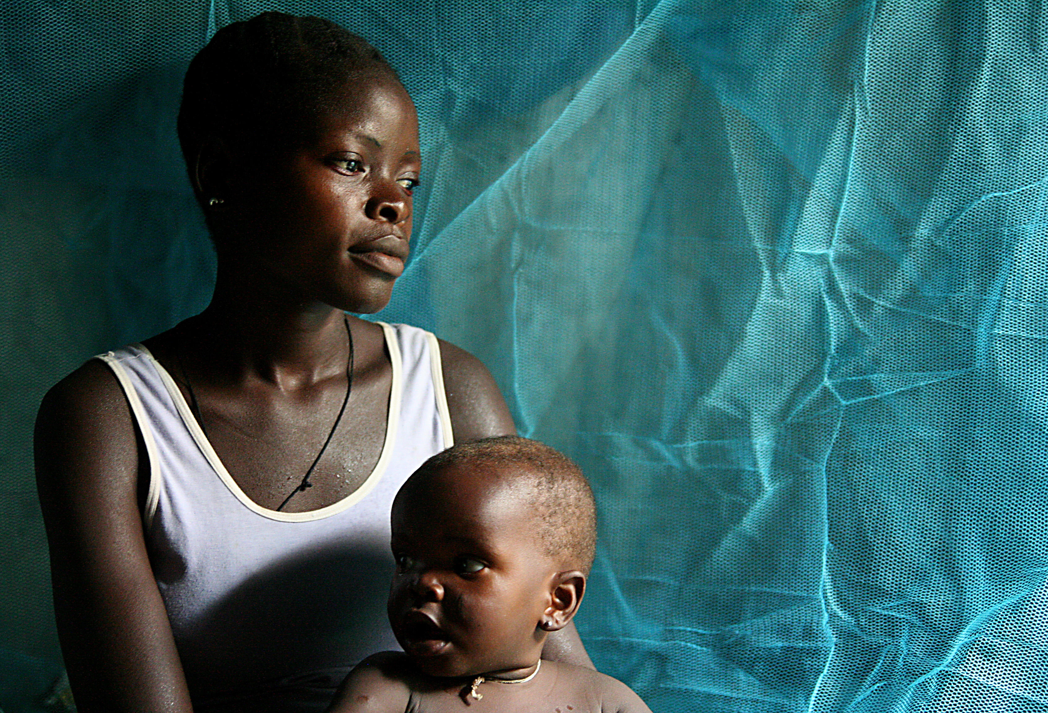 Photographer: Nathan Miller